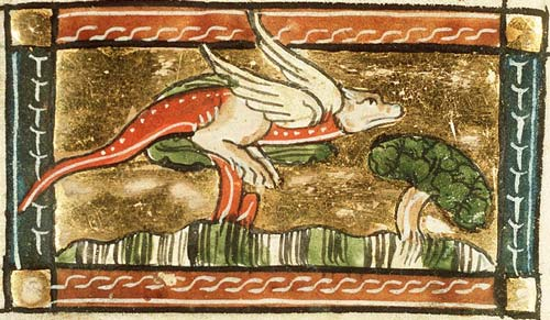 Illustration of 'Der Naturen Bloeme'